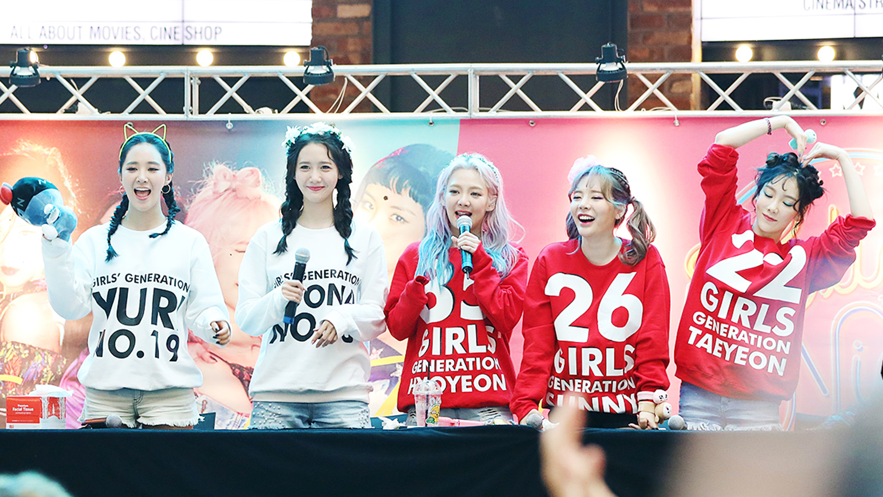 Girls' Generation at fansigning event in IFC Mall on August 13, 2017.